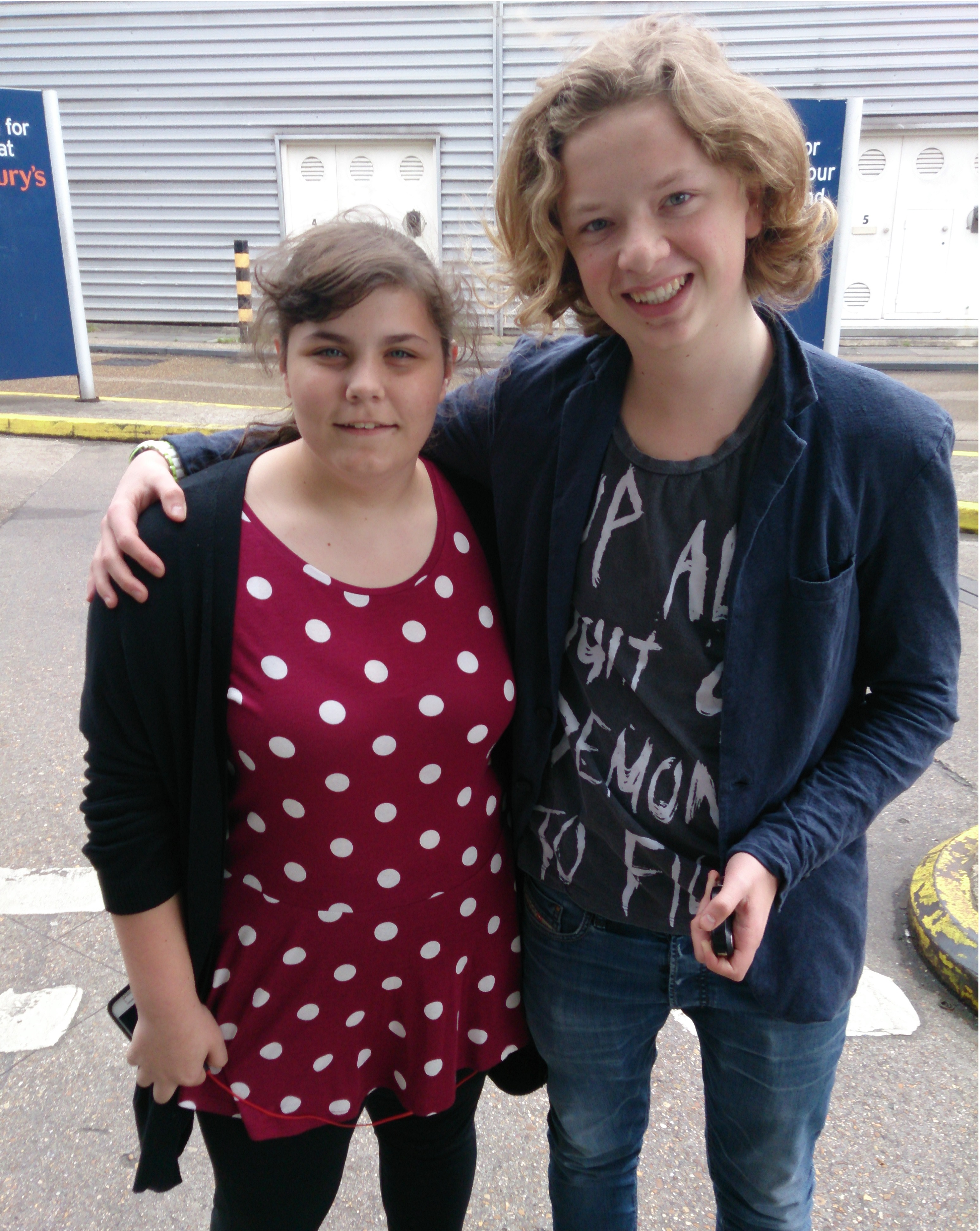 Eros (age 18), and a fan (age 12).